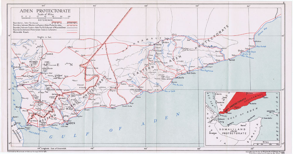 Map of the Aden Protectorate showing the Western and the Eastern Protectorates. Directorate of colonial surveys, 1948